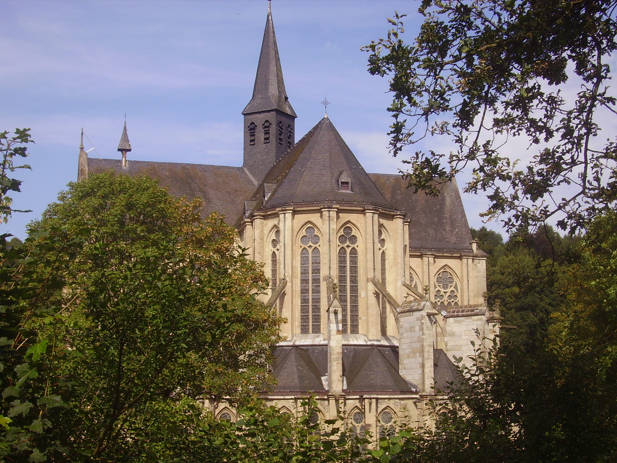 Choir of Altenberg Minster, Odenthal